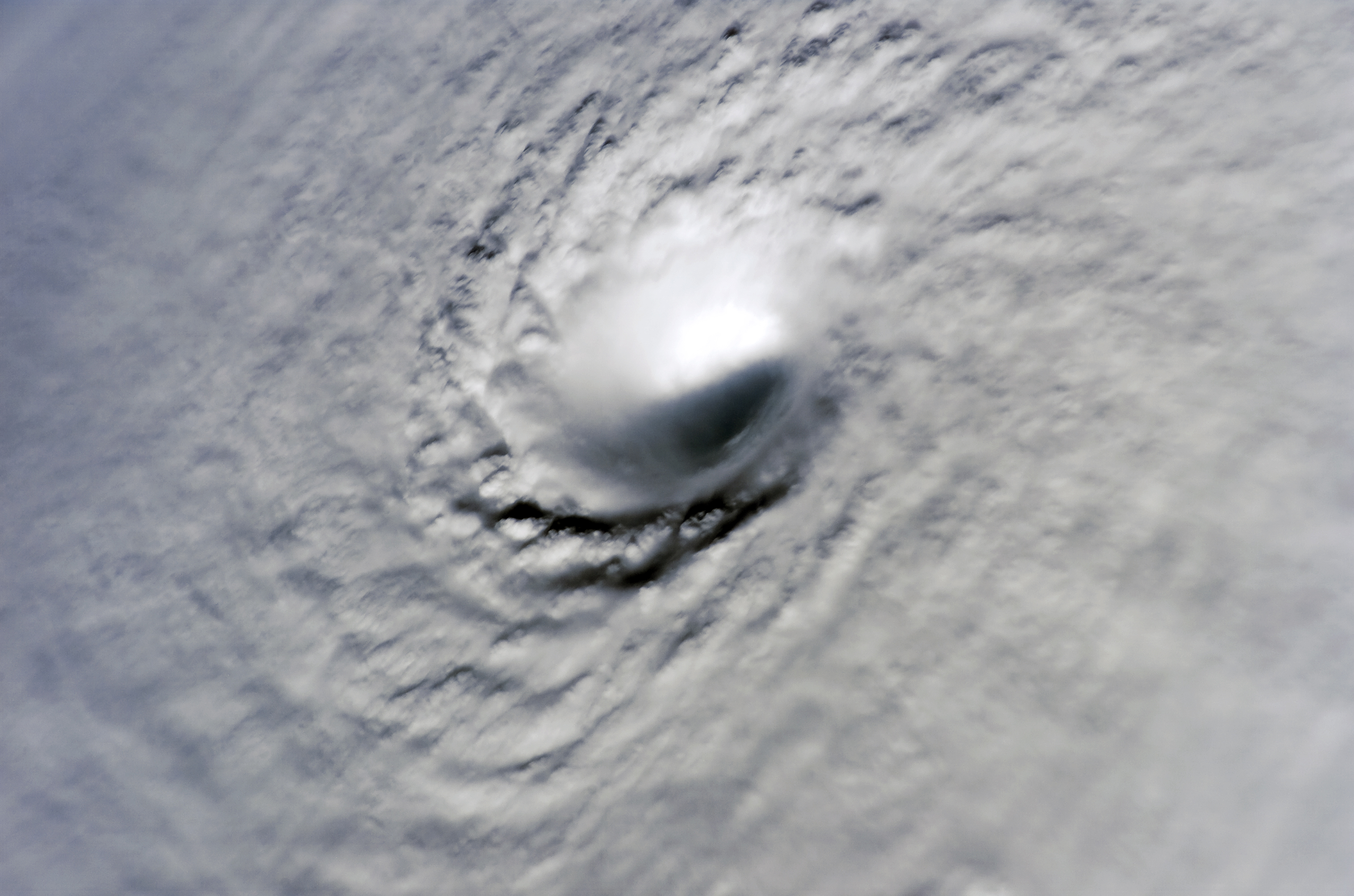 This image of Hurricane Wilma was taken by the crew aboard NASA's international space station as the complex flew 222 miles above the storm. Wilma's eye was two miles across at the time, the smallest eye ever observed, indicating an extremely intense storm. At the time, Wilma was the strongest Atlantic hurricane in history, with winds over 185 miles per hour, a record low central pressure of 882 mbar. The storm was located in the Caribbean Sea, 340 miles southeast of Cozumel, Mexico. ISS Crew Earth Observations: ISS012-E-05235IdentificationMissionISS012 (Expedition 12)RollEFrame05235Country or Geographic NameCARIBBEAN SEAFeaturesHURRICANE WILMA, EYEWALLCenter Point Latitude17.2° NCenter Point Longitude-82.8° ECameraCamera Tilt44°Camera Focal Length180 mmCameraKodak DCS760C Electronic Still CameraFilm3060 x 2036 pixel CCD, RGBG array.QualityPercentage of Cloud Cover76-100%Nadir What is Nadir?Date2005-10-19Time13:22:18Nadir Point Latitude18.2° NNadir Point Longitude-80.0° ENadir to Photo Center DirectionWestSun Azimuth113°Spacecraft Altitude186 nautical miles (344 km)Sun Elevation Angle28°Orbit Number3525